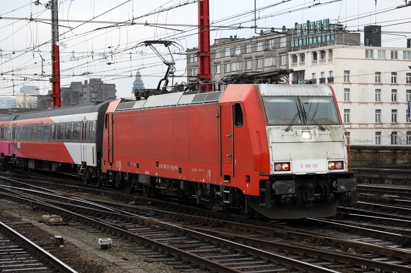 NS Hispeed locomotive E186 120 arrives at Brussels South (Not North as incorrectly staed in filename - d'oh!)